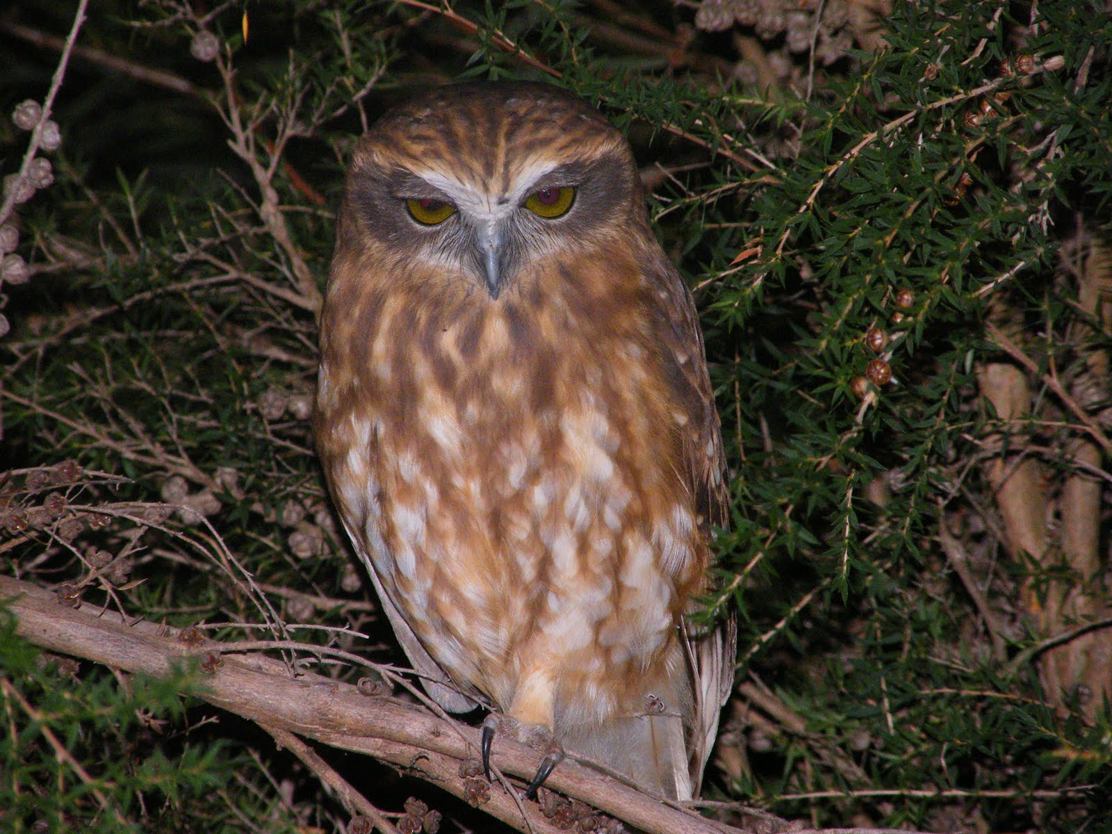 A Southern Boobook in Langwarrin, Melbourne, Victoria, Australia.